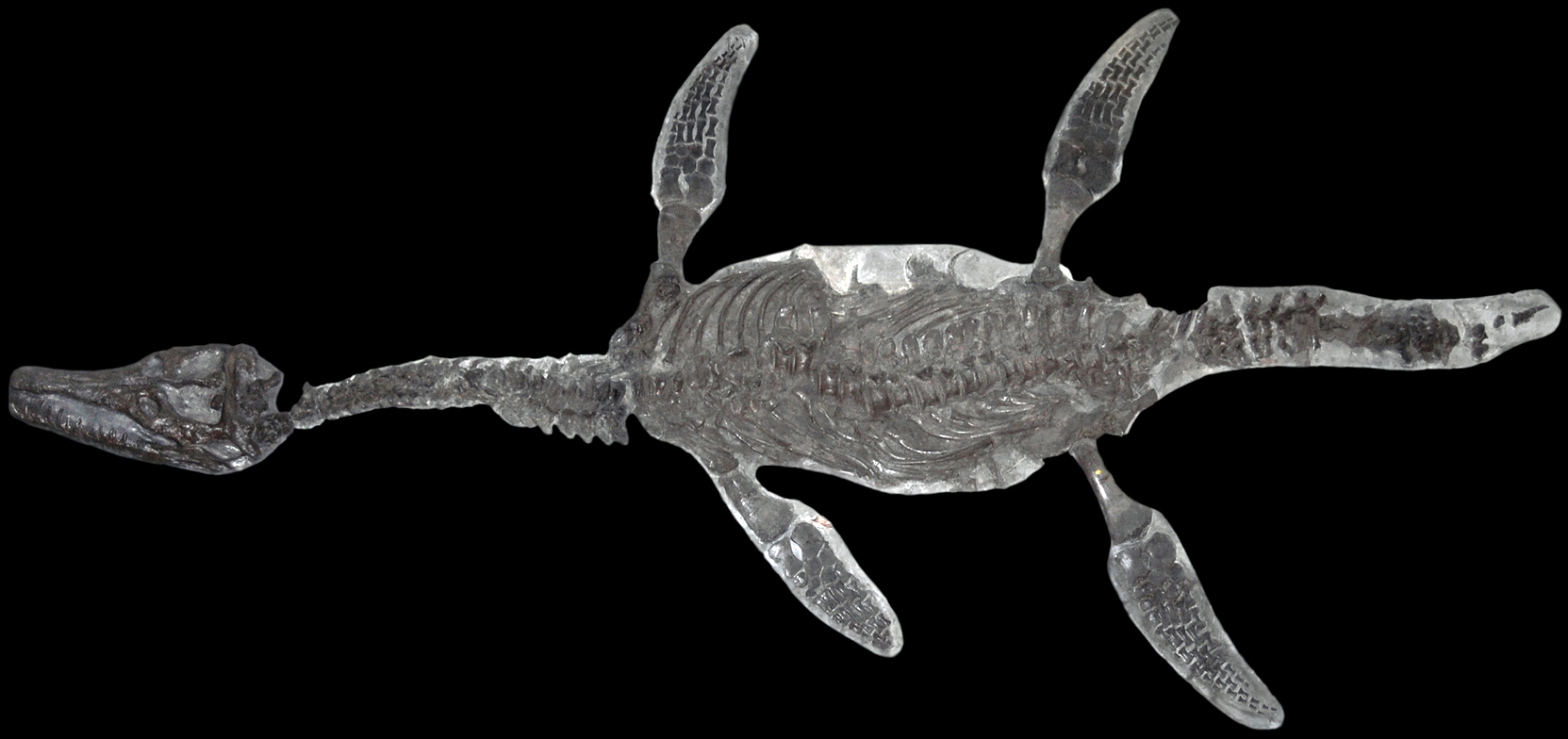 Archaeonectrus NHM